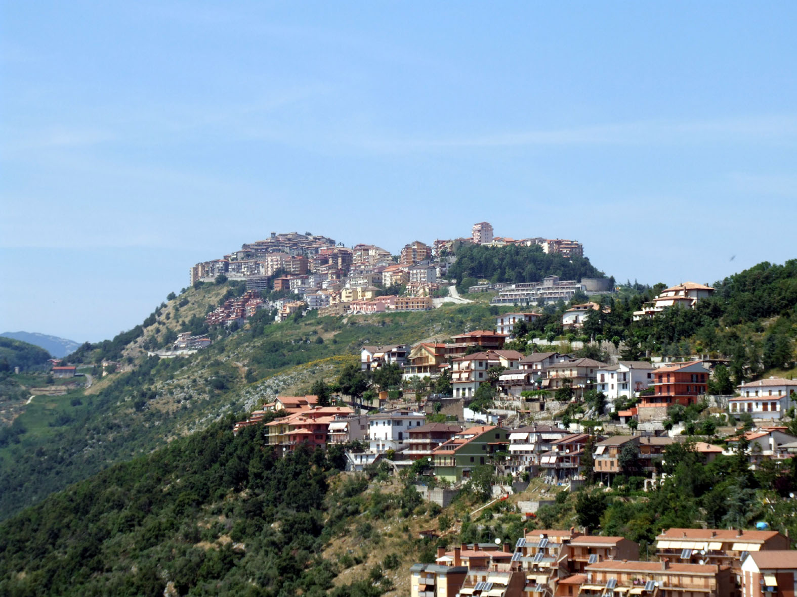 Bellegra, Latium, Italy